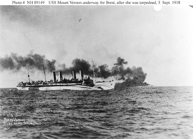 USS Mount Vernon (ID-4508) on September 5, 1918 hours after being torpedoed by a German submarine off France. Another allied warship is visible which is laying a smokescreen in the background.